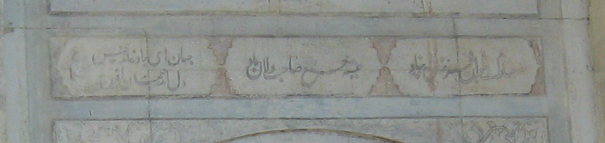 Church of the Assumption, Uzundzhovo, Bulgaria